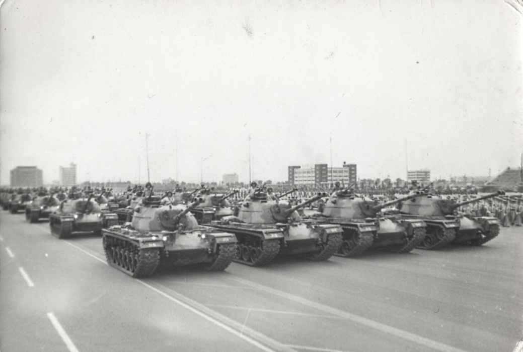 South Korean Army Parade at Armed Forces day in 1973.